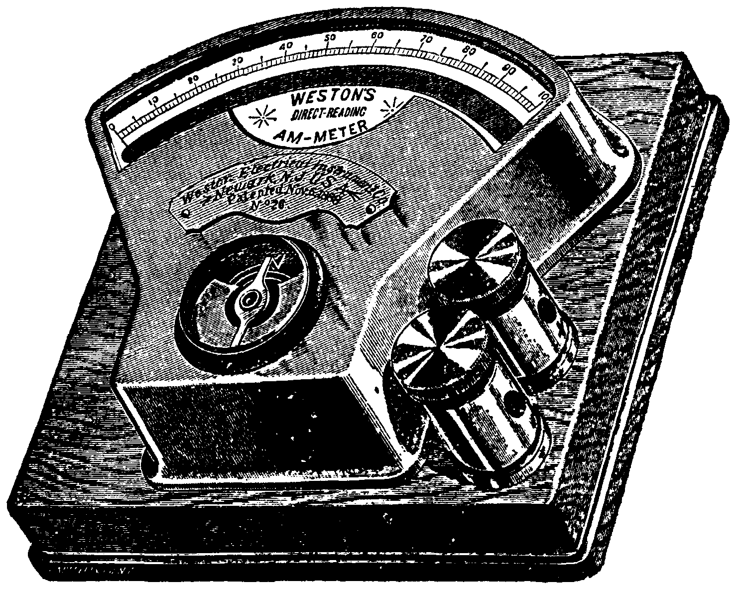 Direct carrent Ammeter, type "Model one", manufacturer: Weston Electrical Instrument Corporation, Newark N.J., USA, produced since 1888 year